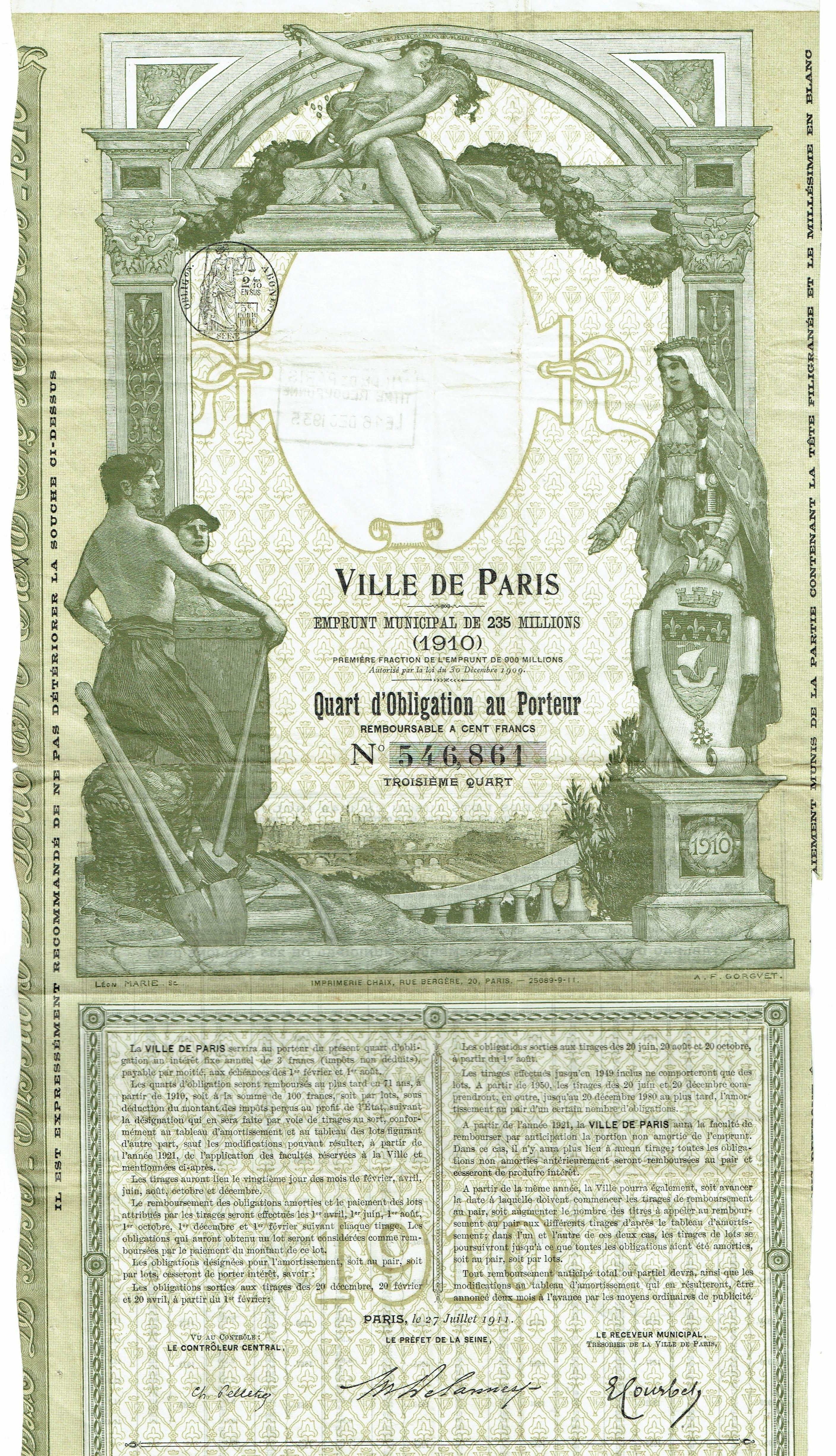 1/4 Bond of the City of Paris, issued 27. July 1911